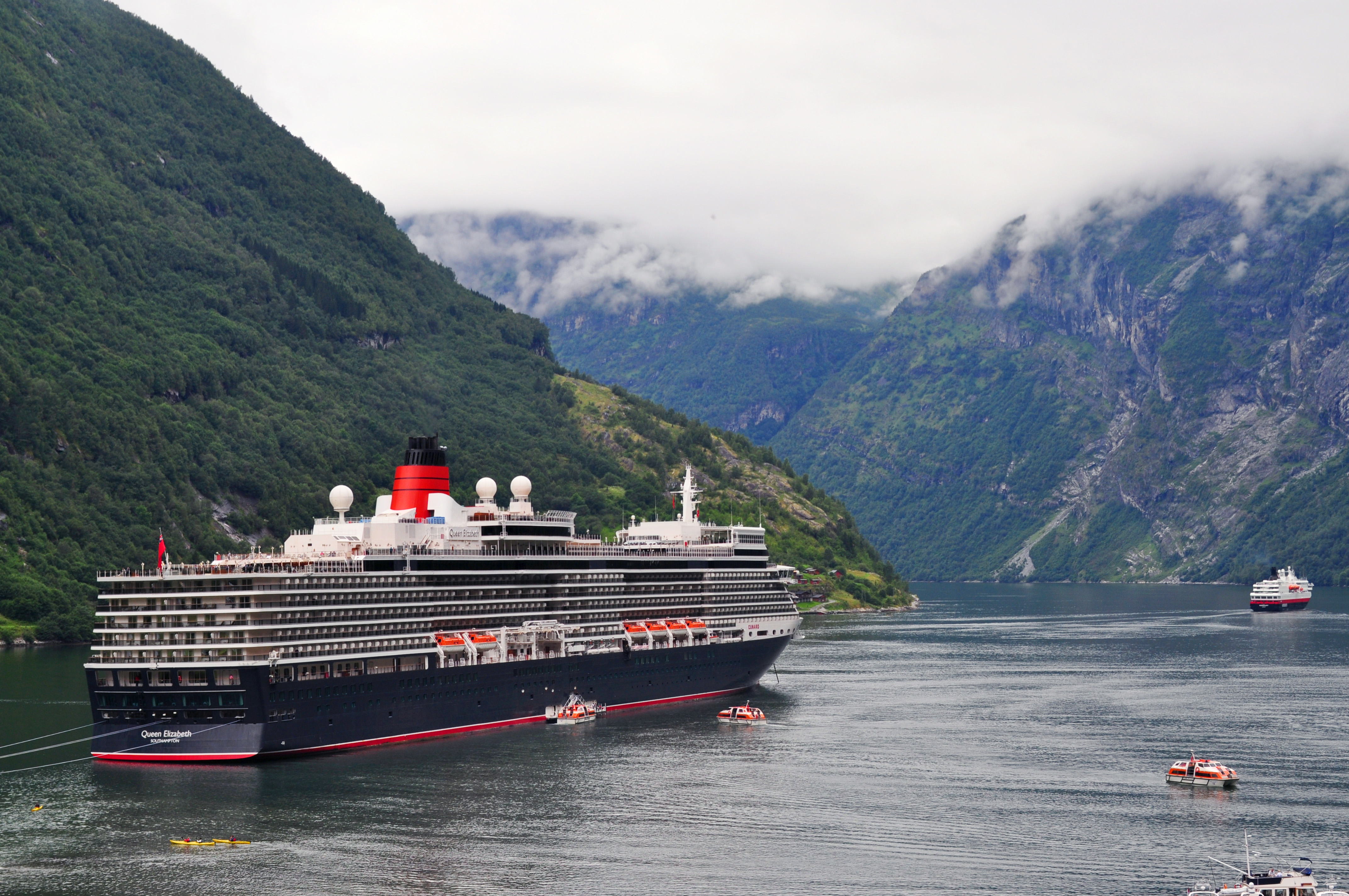 shot of Cunard's Queen Elizabeth in Geirangerfjord.